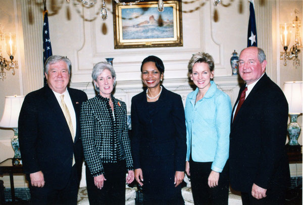 Secretary Rice Briefs Governors in Washington, D.C. Office of Intergovernmental Affairs Secretary Rice briefs governors in Washington before their IGA-Department of Defense sponsored trip to the Middle East. From left: Mississippi Gov. Haley Barbour and Kansas Gov. Kathleen Sebelius. From Right: Georgia Gov. Sonny Perdue and Michigan Gov. Jennifer Granholm.